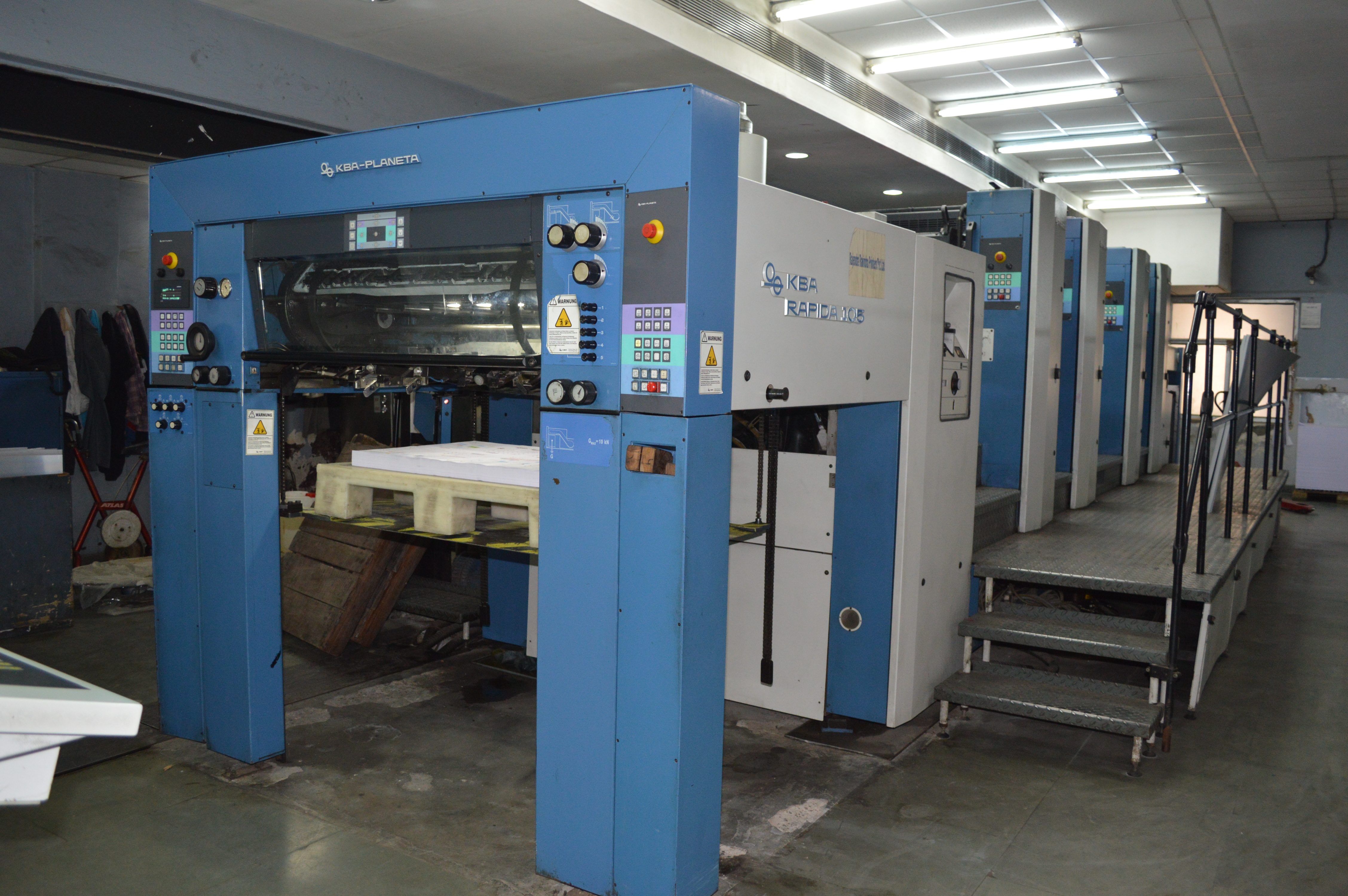 2 Colour and 4 Colour Machines used after the 1980s